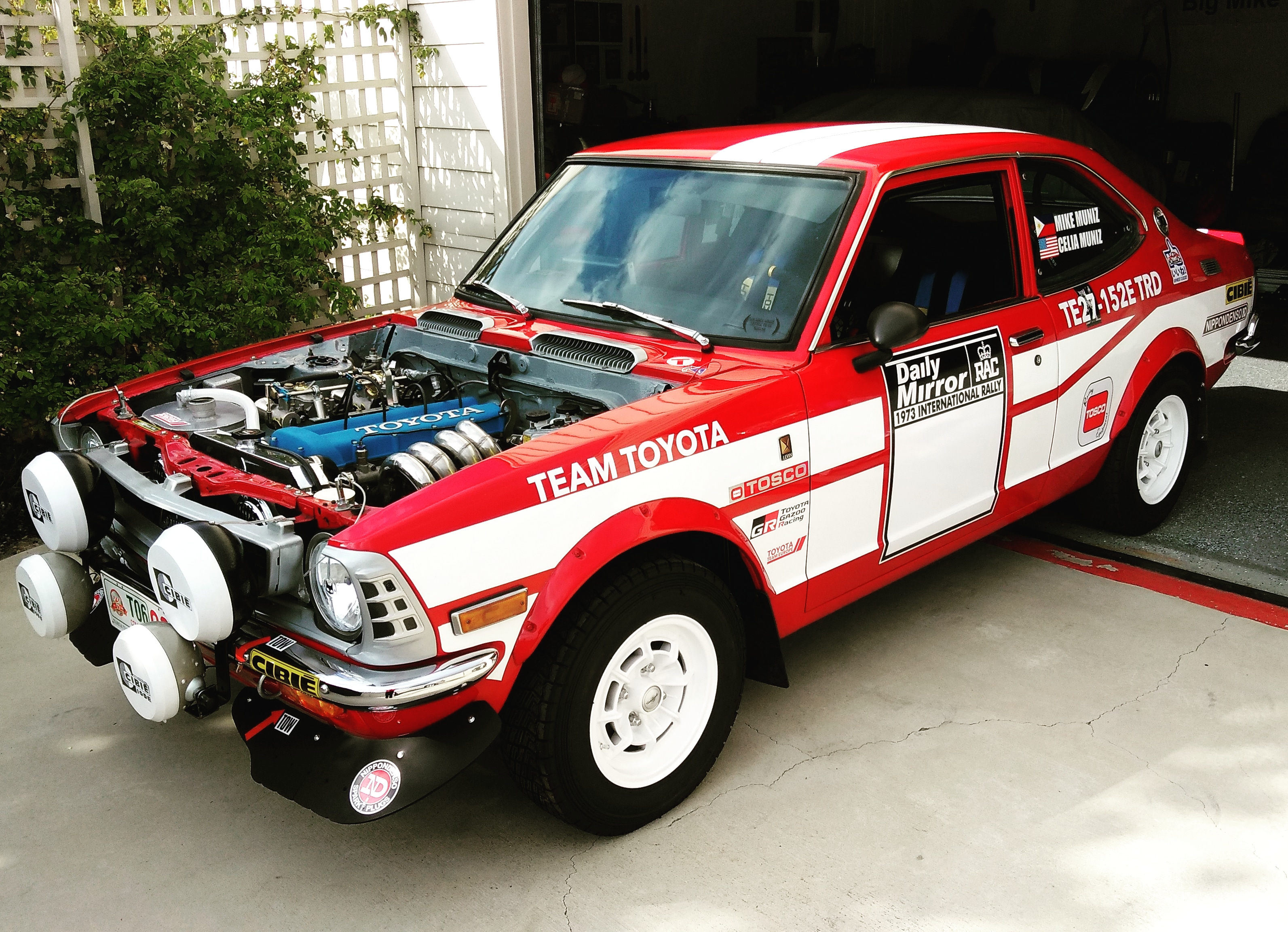 Big Mike Muniz TE27 Rally Car with a 152E TRD race engine